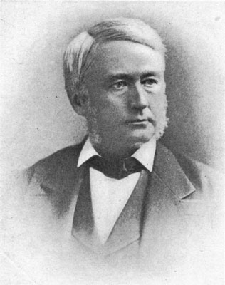 Thomas Alexander Scott (1823-1881), American railroad executive. Positions included President of Union Pacific Railroad and Pennsylvania Railroad.